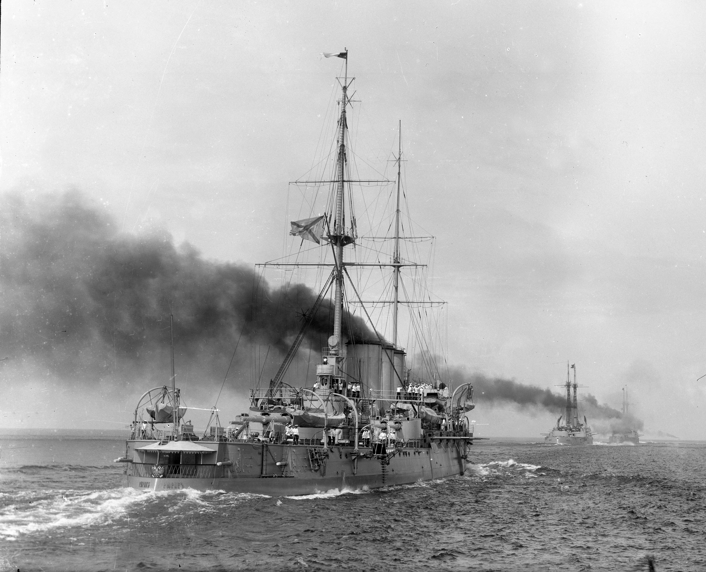 Imperial Russian cruiser Riurik, Battleships Andrei Pervozvannyi and Imperator Pavel I, 4 July 1913.